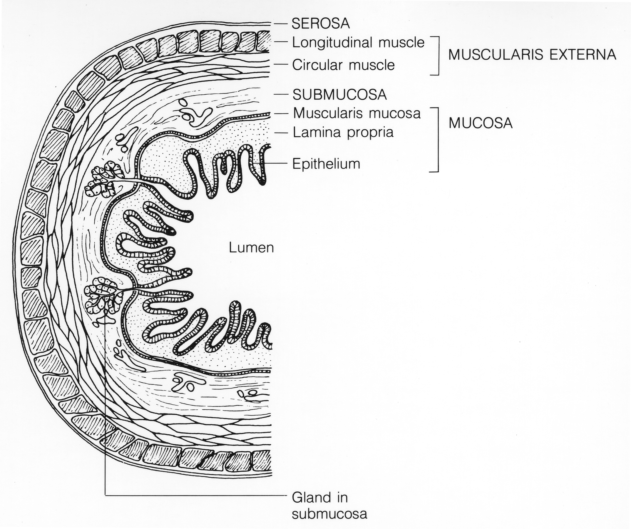 Title Mucosa Description Line drawing showing the lining of the GI tract: colorectal (muscularis). The walls of the digestive tract have four layers of tissue: mucosa, submucosa, muscularis externa and serosa. The inner-most layer is the mucosa, a membrane that forms a continuous lining of the GI tract from the mouth to the anus. In the large bowel, this tissue contains cells that produce mucus to lubricate and protect the smooth inner surface of the bowel wall. Connective tissue and muscle separate the muscosa from the second layer, the submucosa, which contains blood vessels, lymph vessels, nerves and mucus-producing glands. Next to the submucosa is the muscularis externa, consisting of two layers of muscle fibers-one that runs lengthwise and one that encircles the bowel. The fourth layer, the serosa, is a thin membrane that produces fluid to lubricate the outer surface of the bowel so that it can slide against adjacent organs. Topics/Categories Anatomy -- Digestive/Gastrointestinal System Type B&W, Medical Illustration Source National Cancer Institute